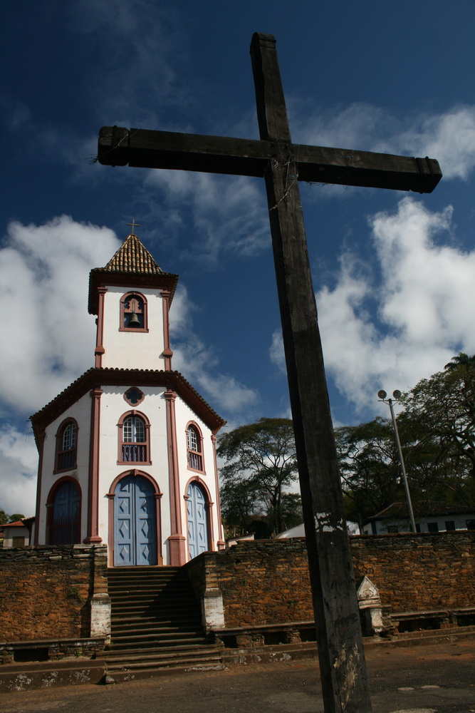 Front of the Saint Joseph Mother Church, in Nova Era, Minas Gerais, Brazil.